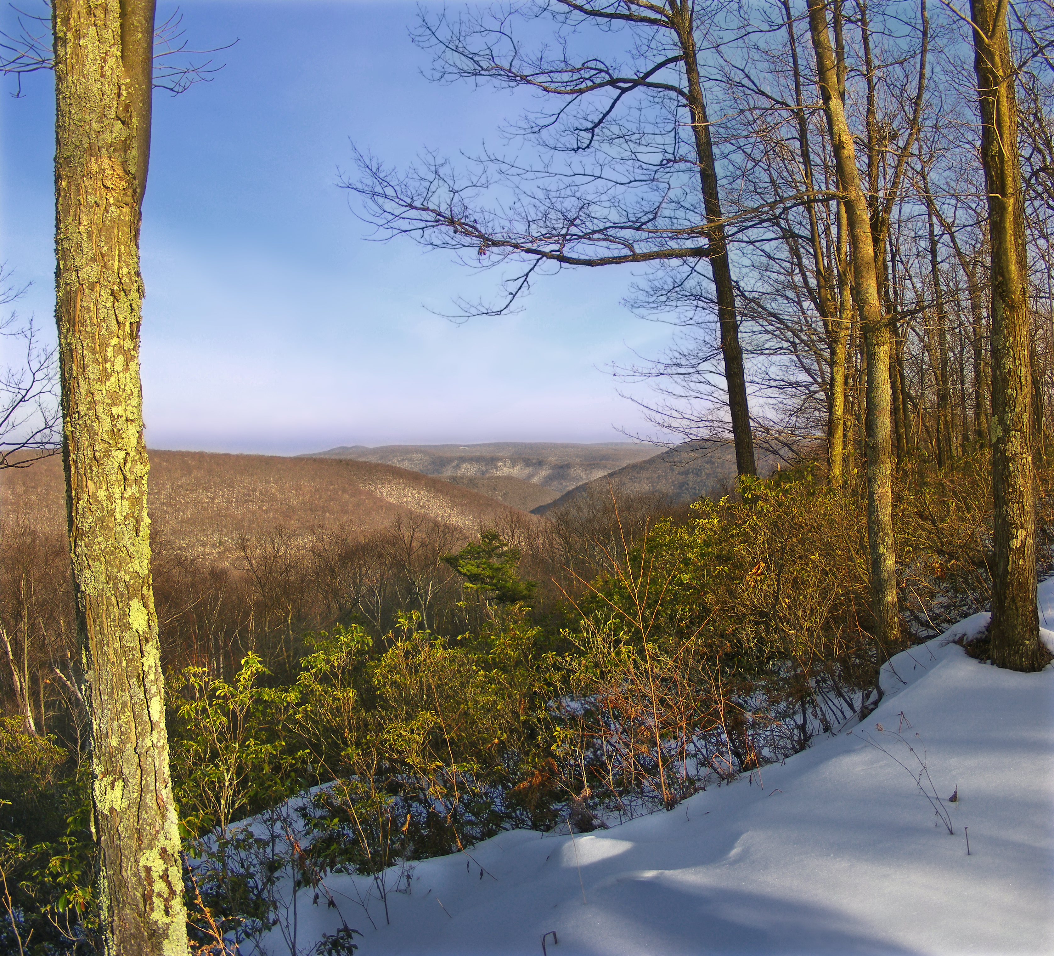 Naval Run Canyon, Tiadaghton State Forest, Lycoming County, as seen from the Black Forest Trail.